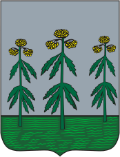 Epifan (Tula oblast), coat of arms (1778)